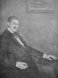 Adolf Fényes:The image of Baron Adolf Kohner